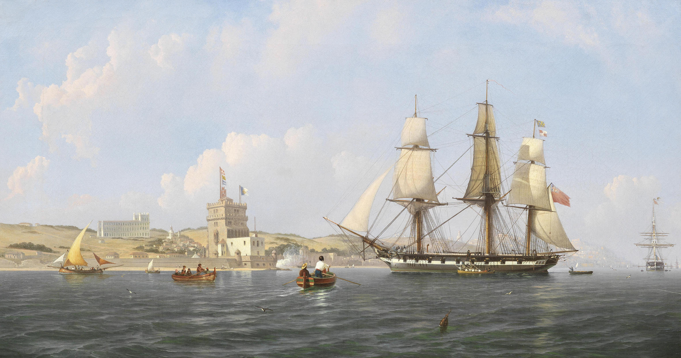 An English frigate arriving in the Tagus off the Belem Tower (19th century, oil on canvas), by Joseph (Giuseppe) Schranz.